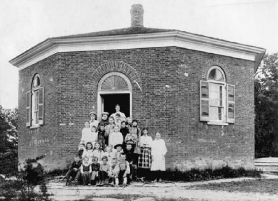 Students and their teacher in front of the Eight Square Schoolhouse in Tompkins County, New York.